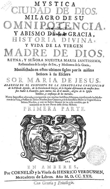 Opening page of a vita (biography of a saint) of Sta. María de Jesús de Agreda (1602-1665), Spanish Fransiscan.